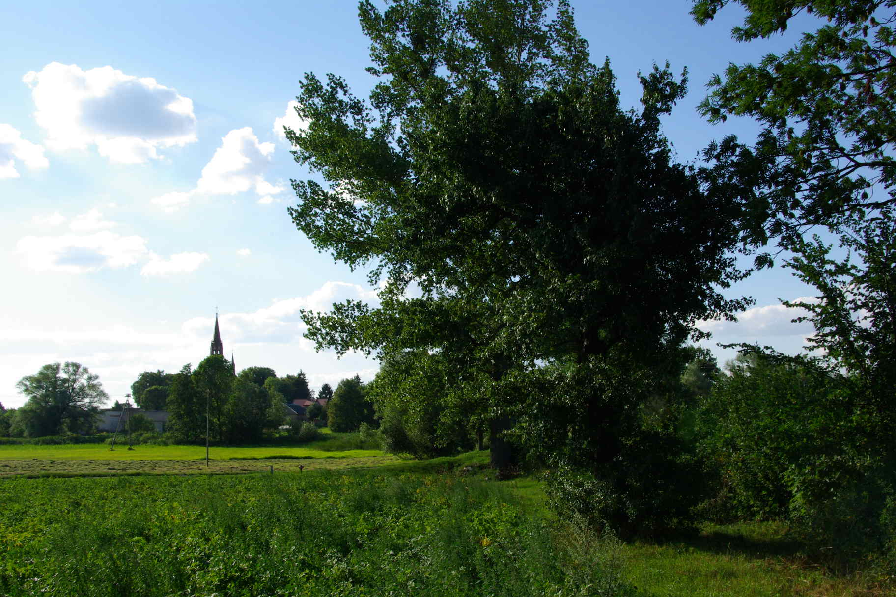 Łomazy - the parish church